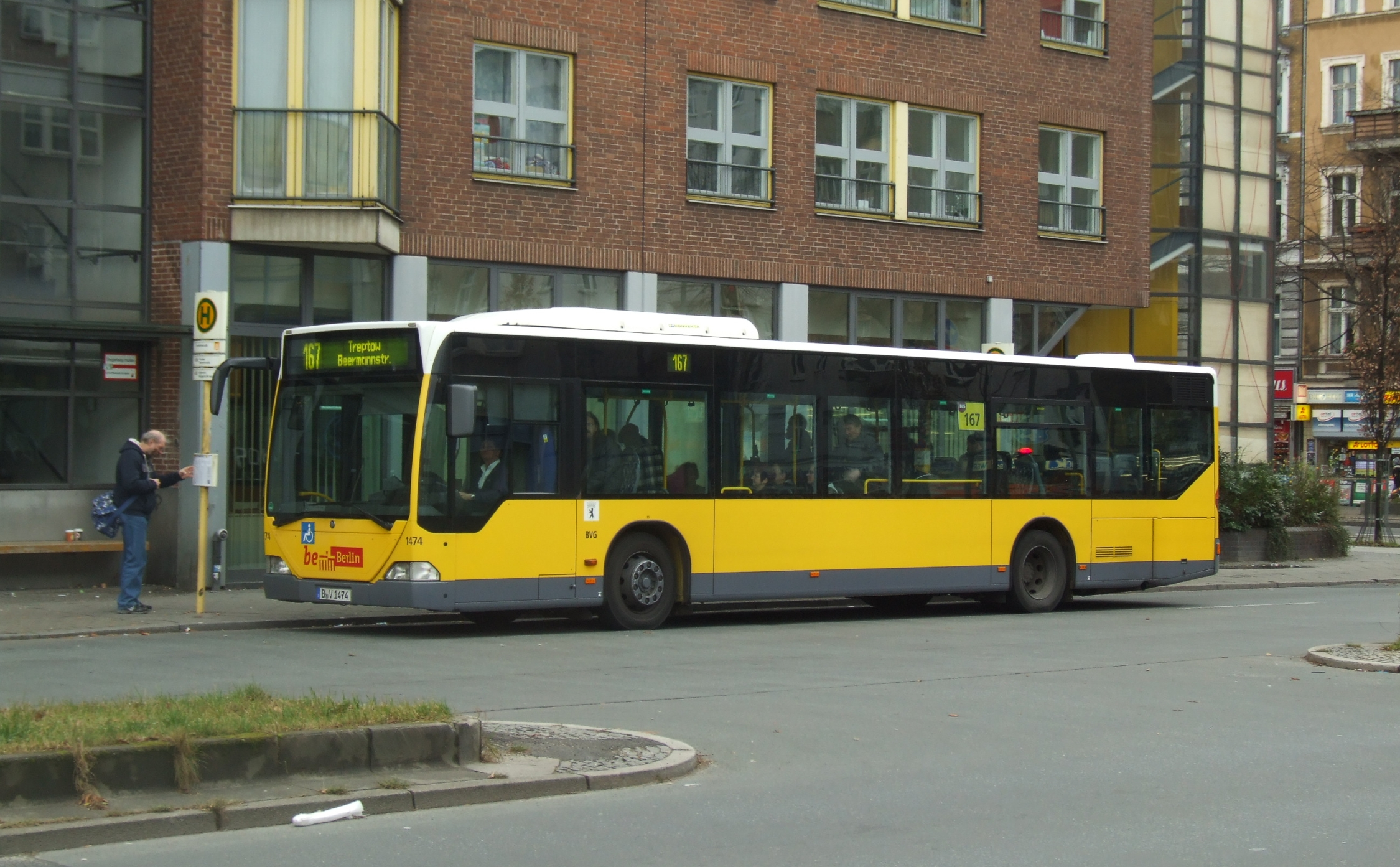 BVG Berlin bus - EvoBus Mercedes-Benz O 530 Citaro